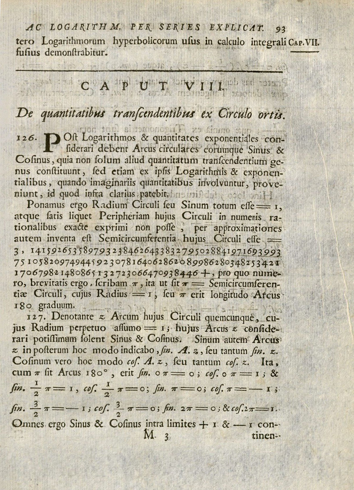 Page from Introductio in analysin infinitorum, 1748, by Leonhard Euler (1707-1783). *GC7 Eu536 748i, Houghton Library, Harvard University